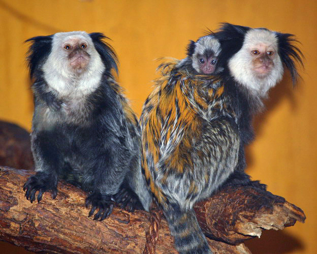 Callithrix geoffroyi with baby, Zoo Nyíregyháza, Hungary